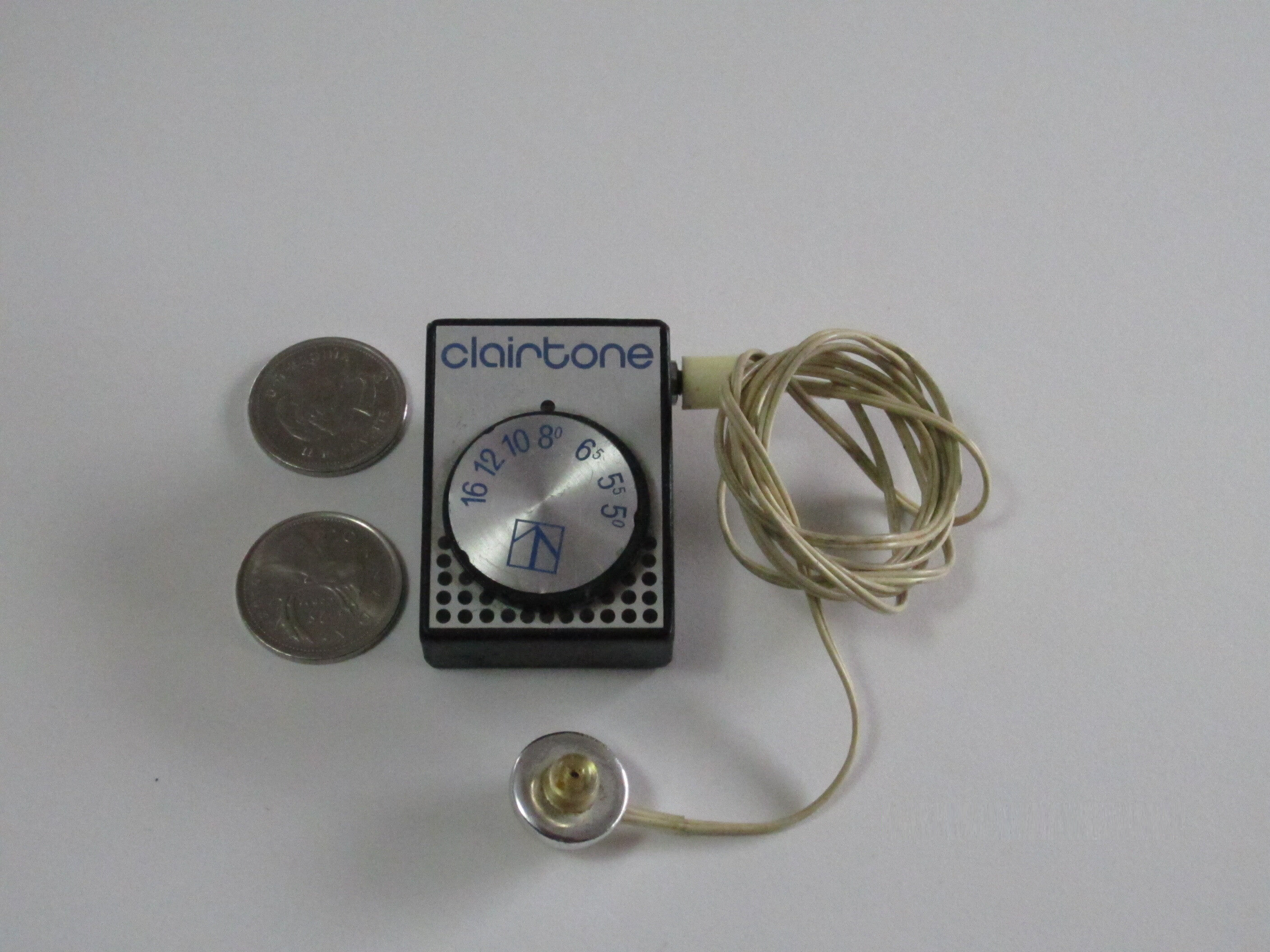 Clairtone Mini HiFi two-transistor AM radio with earphone made 1970, with earphone